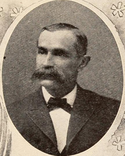 Portrait of New York state senator Charles T. Willis